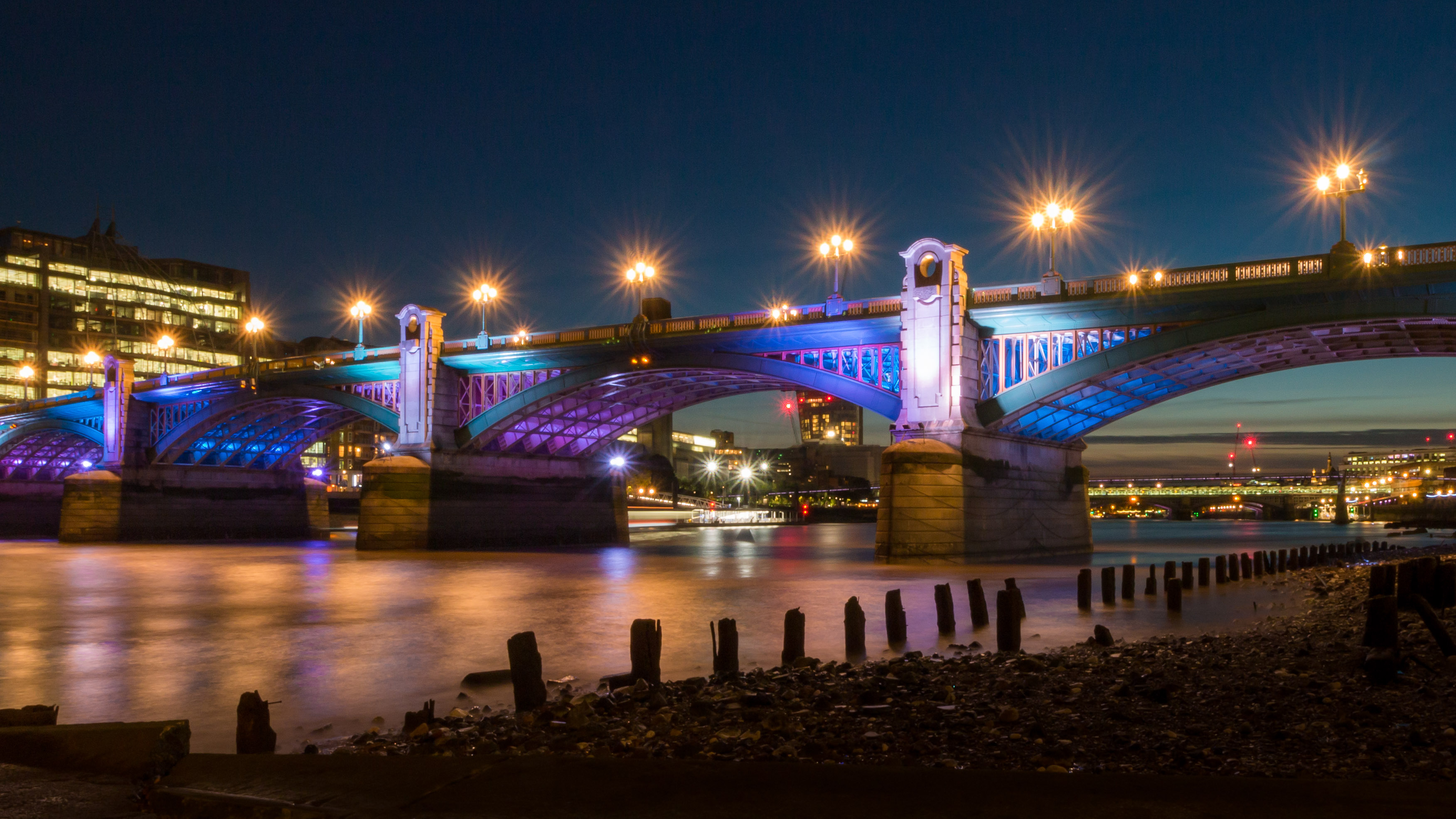 Southwark Bridge Wikidata has entry Q1324578 with data related to this item.